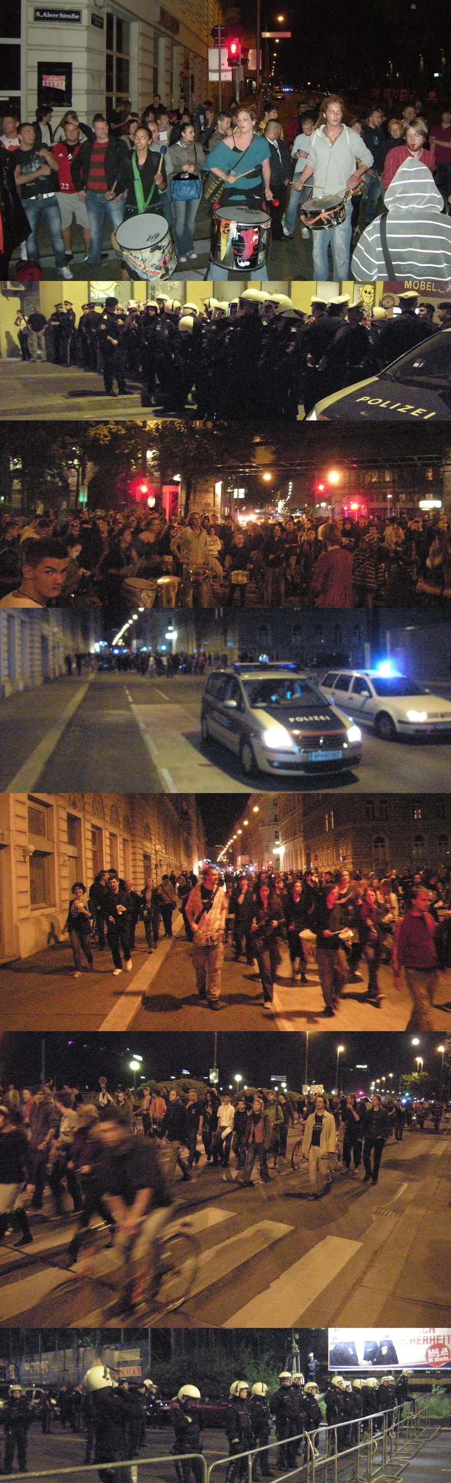 This was a protest for some 16 illegal immigrants to Austria, who were jailed on the same day as some soccer training with FC ["Football Club"] Sans Papiers. The demonstration started and ended as kind-of drumming jam session, peacefully, though somewhat noisily. No animals, or persons, nor any police, were hurt. Most of the "sans-papiers" people were released from jail before the end of that event, around midnight. See also No person is illegal and the deWP equivalent. Note that EXIF data time stamp of my camera refers to UT, which is local CEST-2.